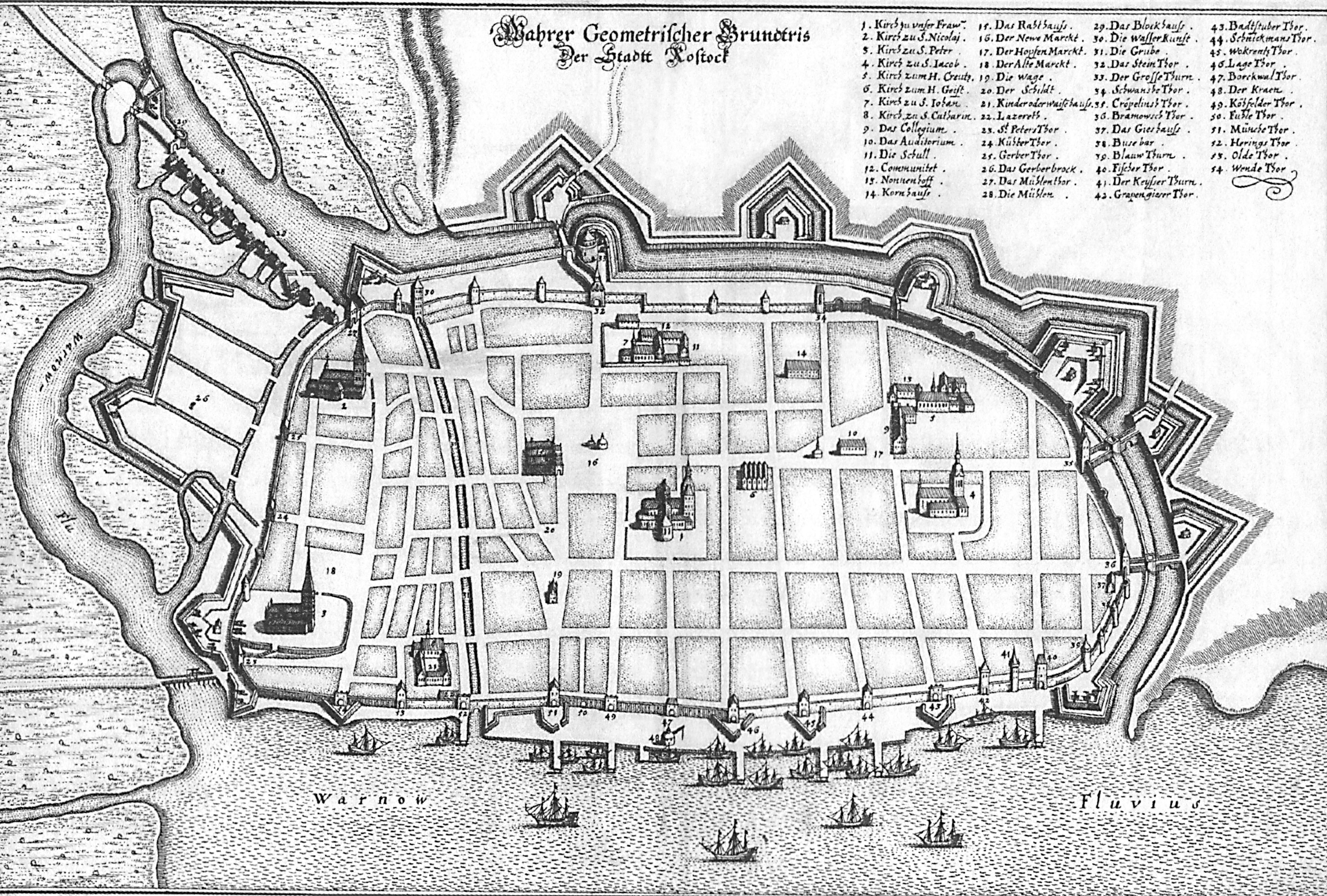 Map of Rostock